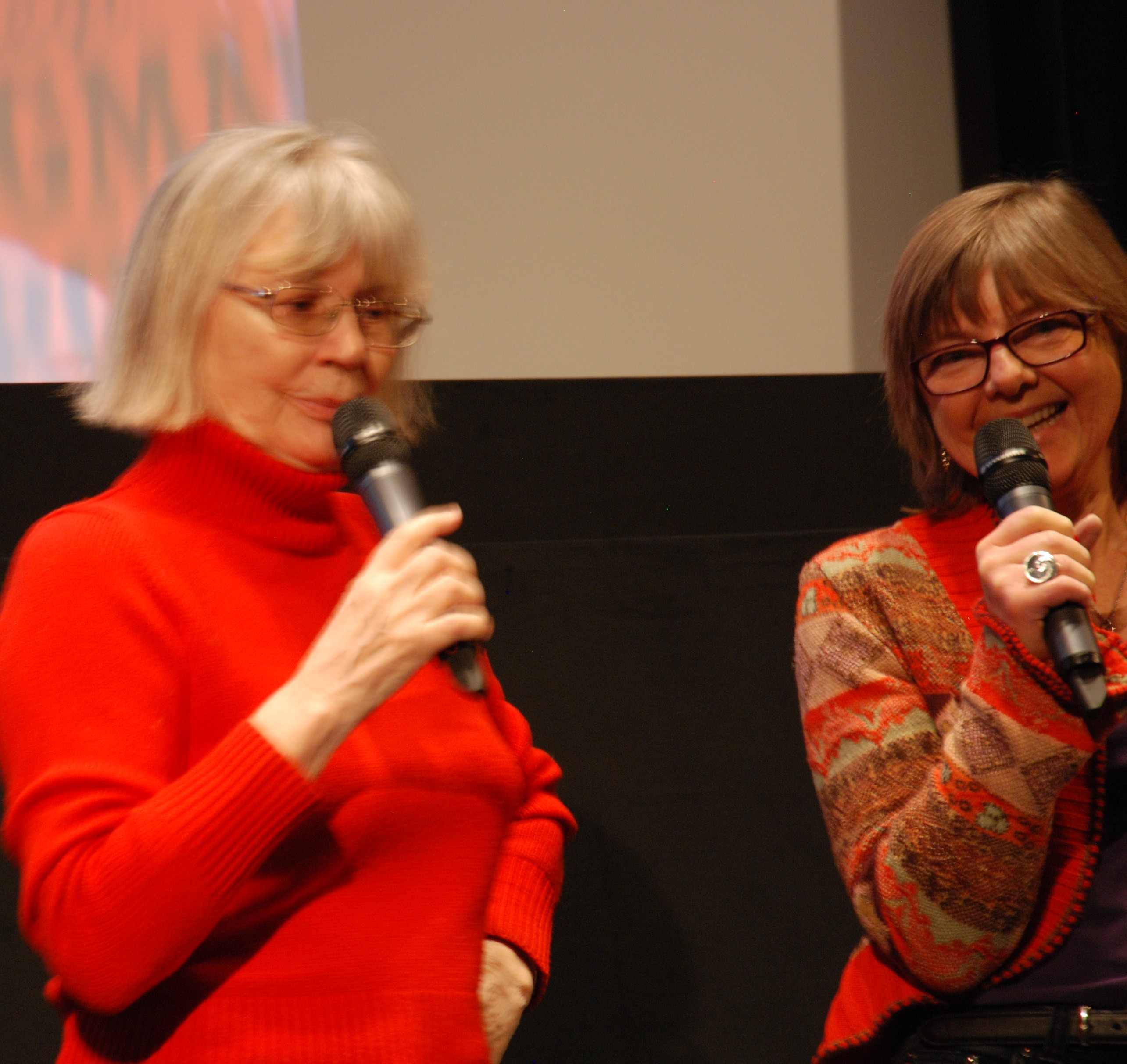 Swedish film actress Harriet Andersson and Swedish film director Christina Olofson discussing Olofson's film I rollerna tre (In the three roles) from 1996 on a Swedish Förenade Filmstudios film seminar at the Swedish Film Institute in March, 2012.